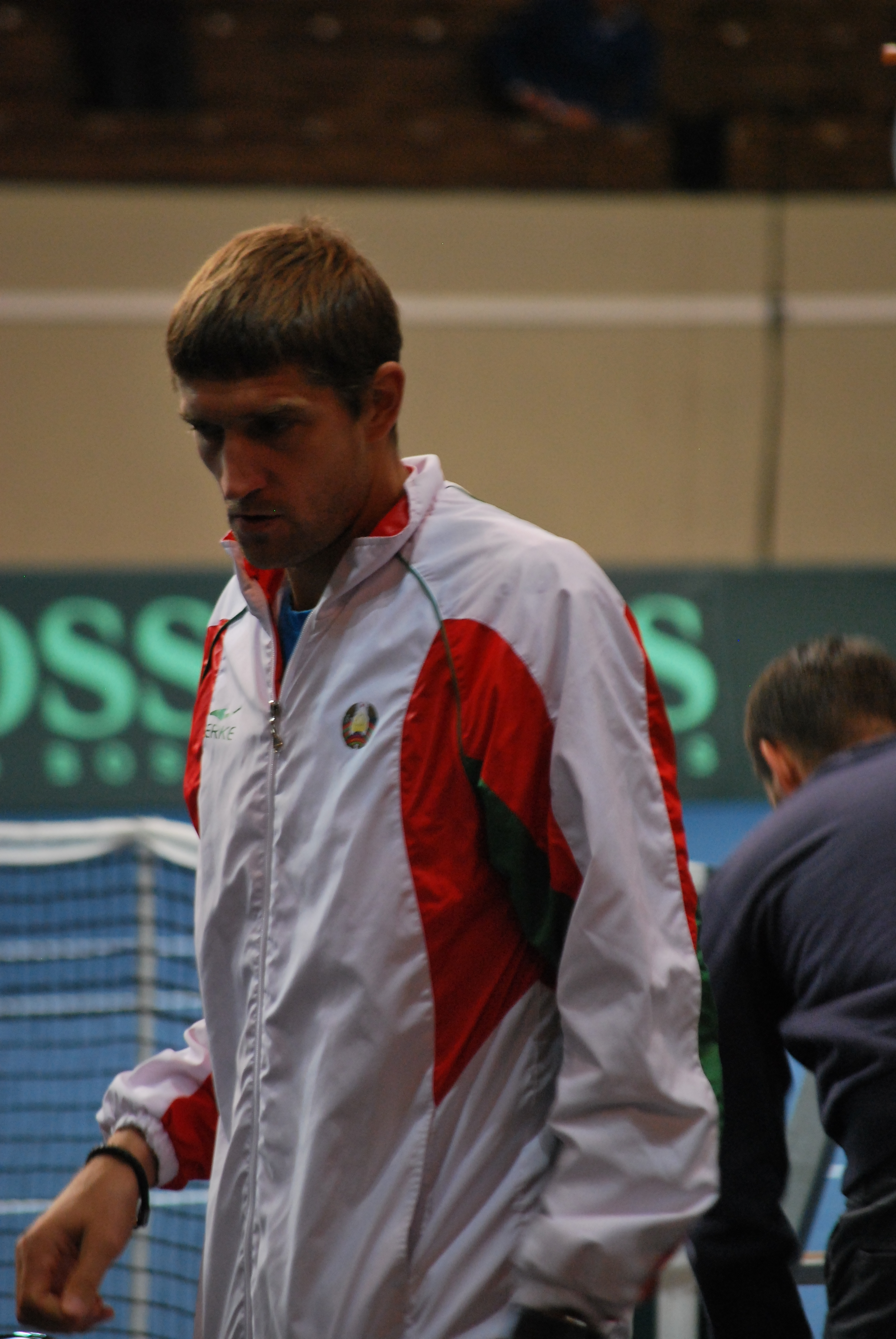 Max Mirnyi, tennis player from Belarus, Davis Cup Łódź 2012